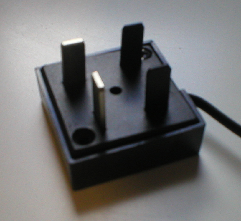 Brasilian telebrás plug